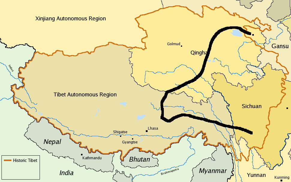 A map of Tibet